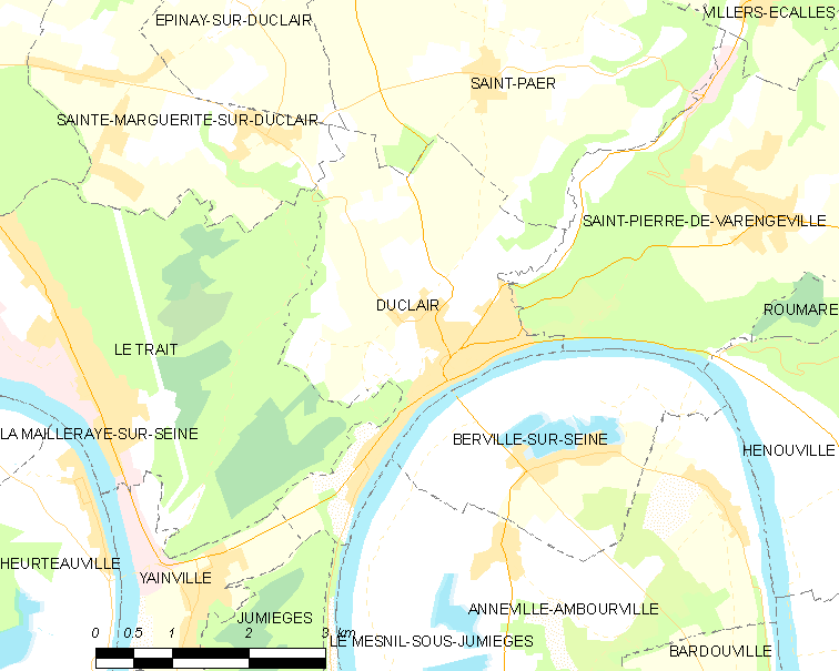 Map of French municipality Duclair